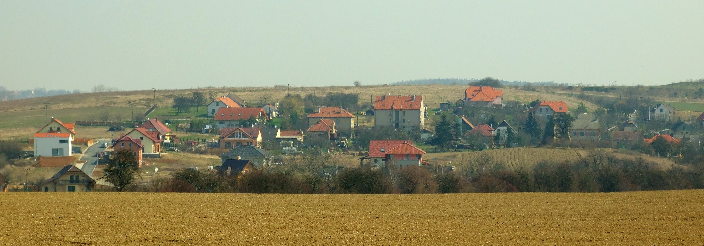 Town of Bubovice and its surrounding nature in Central Bohemian region, CZhelp